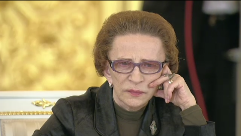 Tamara Morshchakova, Soviet and Russian lawyer. Member of the Presidential Council for the Development of Civil Society and Human Rights (2004—2019)